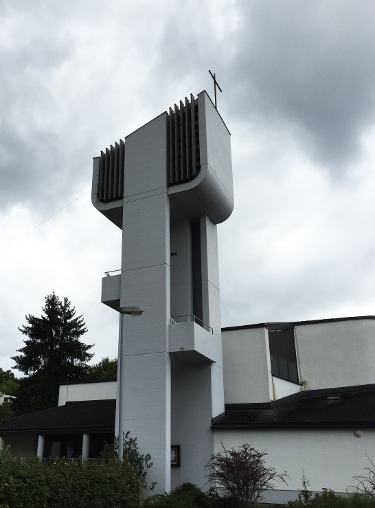 Church Tower Schöftland